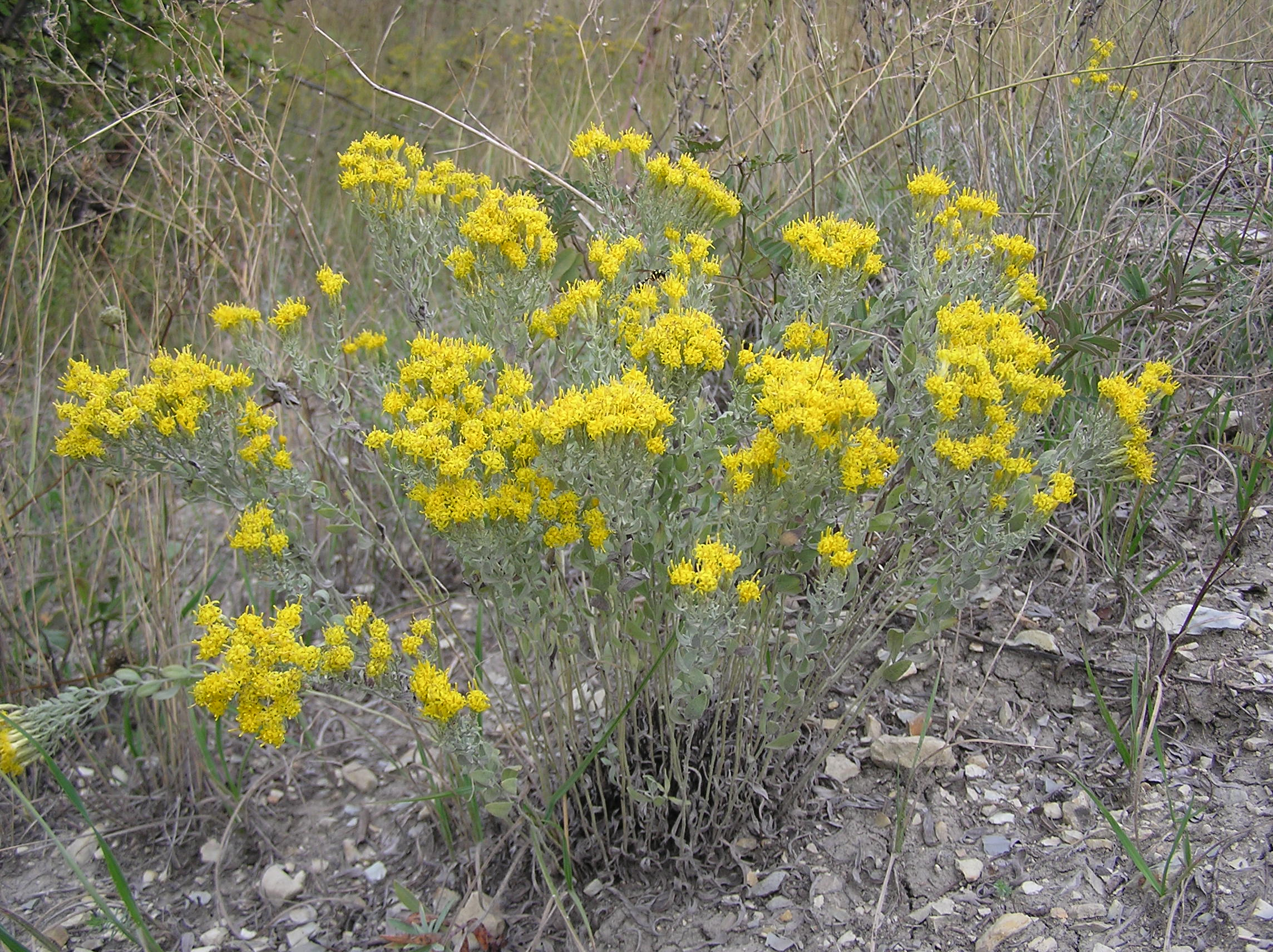 Galatella villosa (L.) Rchb. f., habitus. Habitat: on a southern slope. Vicinity of Saratov city, Russia.